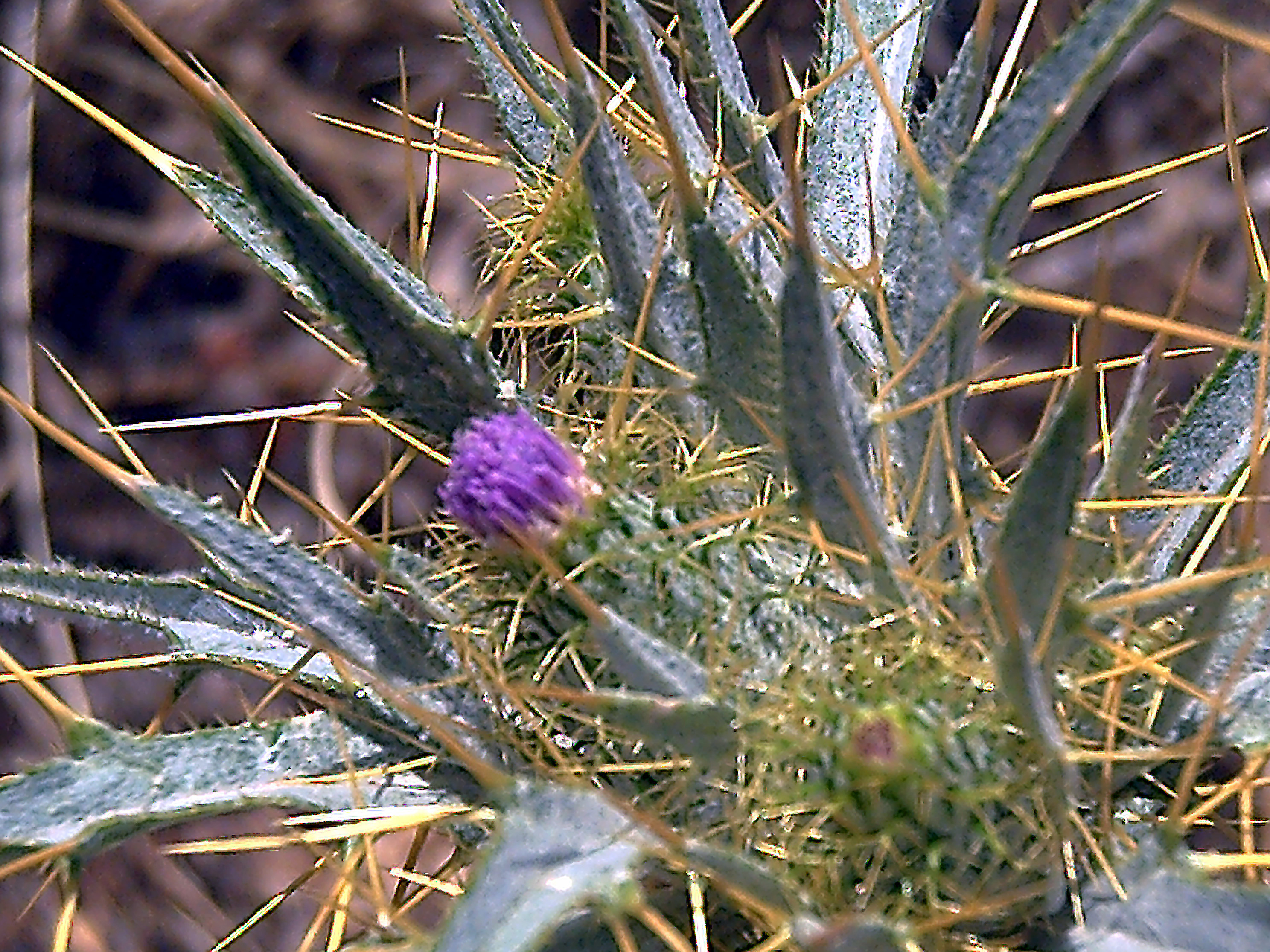 Picnomon acarna flowers, El Tamaral Sierra Madrona, Spain